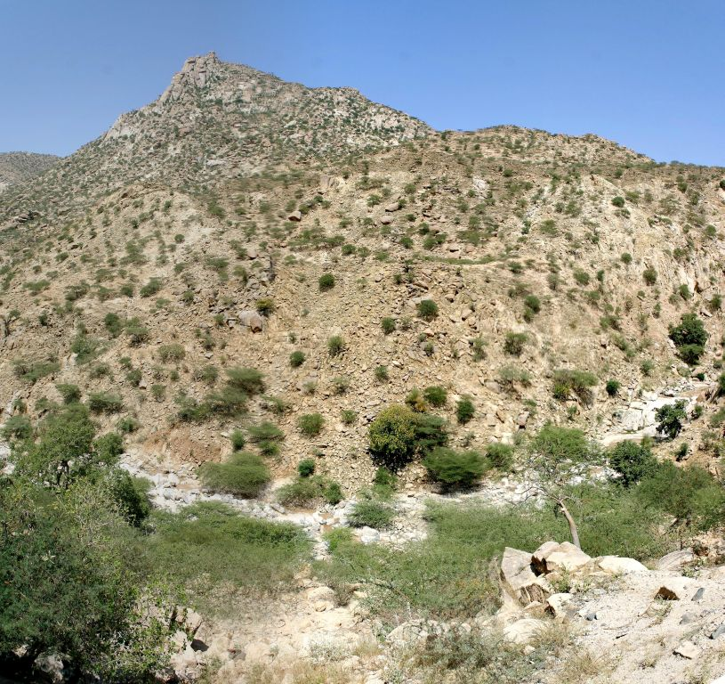 Battle of Keren Battlefield - Mountains around Keren